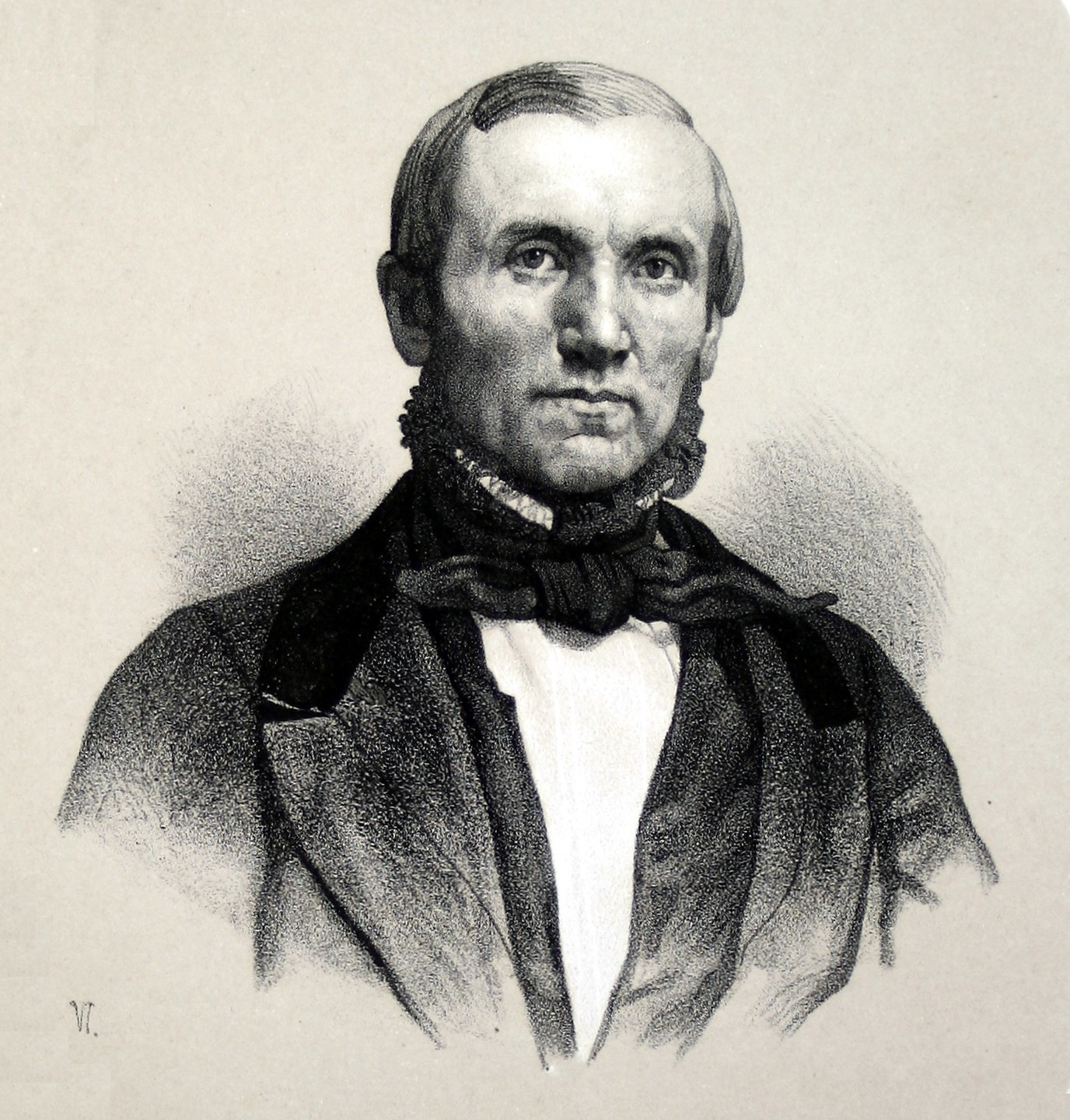 Portrait of Carl Victor Heljestrand from the book "Svenska industriens män" (1875)